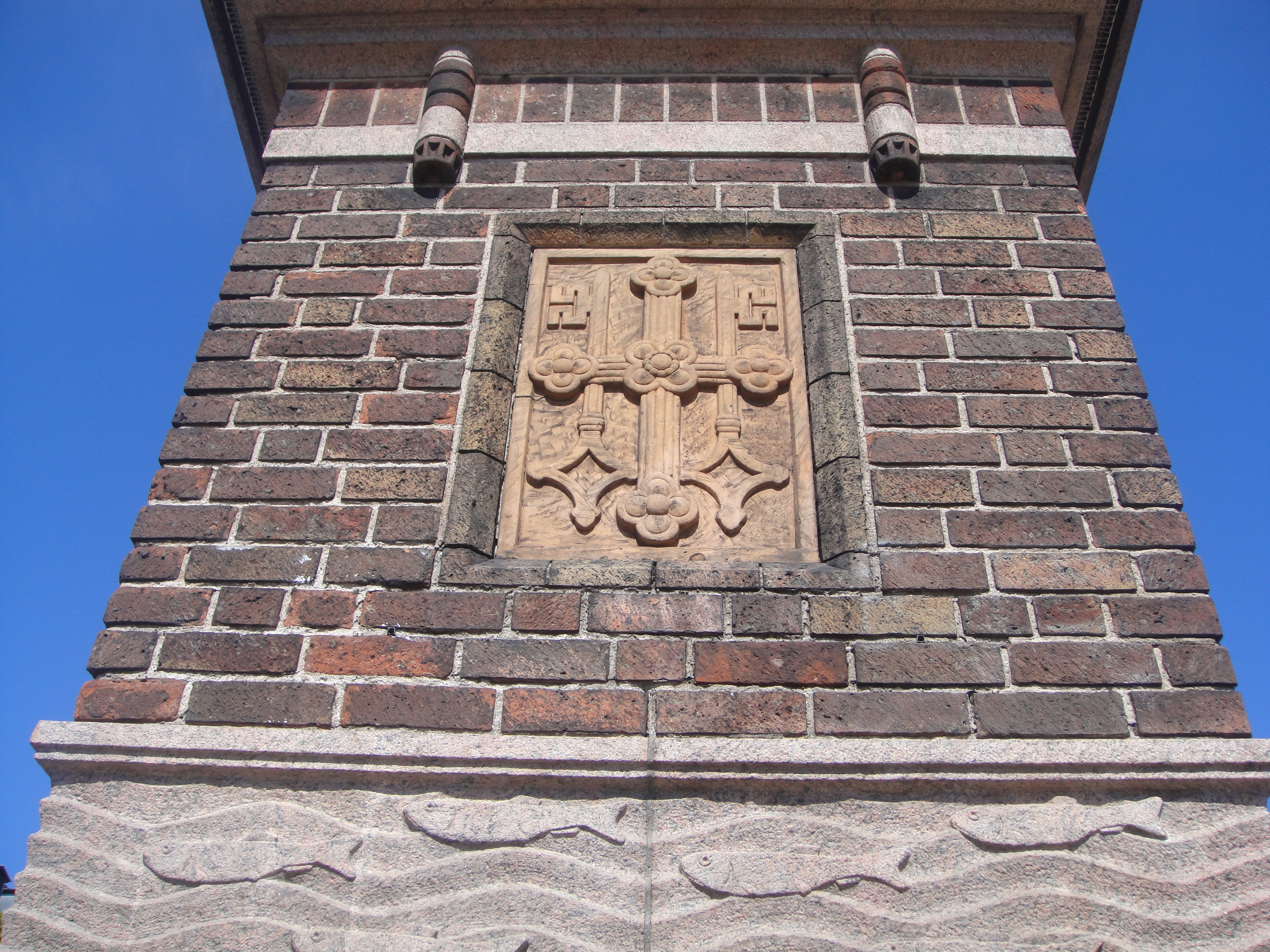 Picture of the engravings on the statue of Absalon